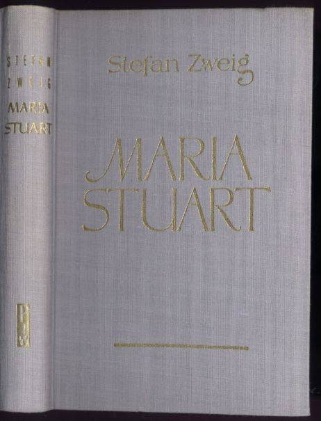 Book cover of Stefan Zweig "Maria Stuart" 1935